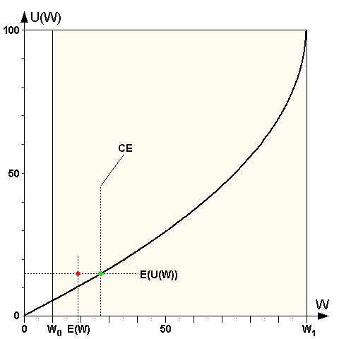 Risk affinity, type 2, case 0